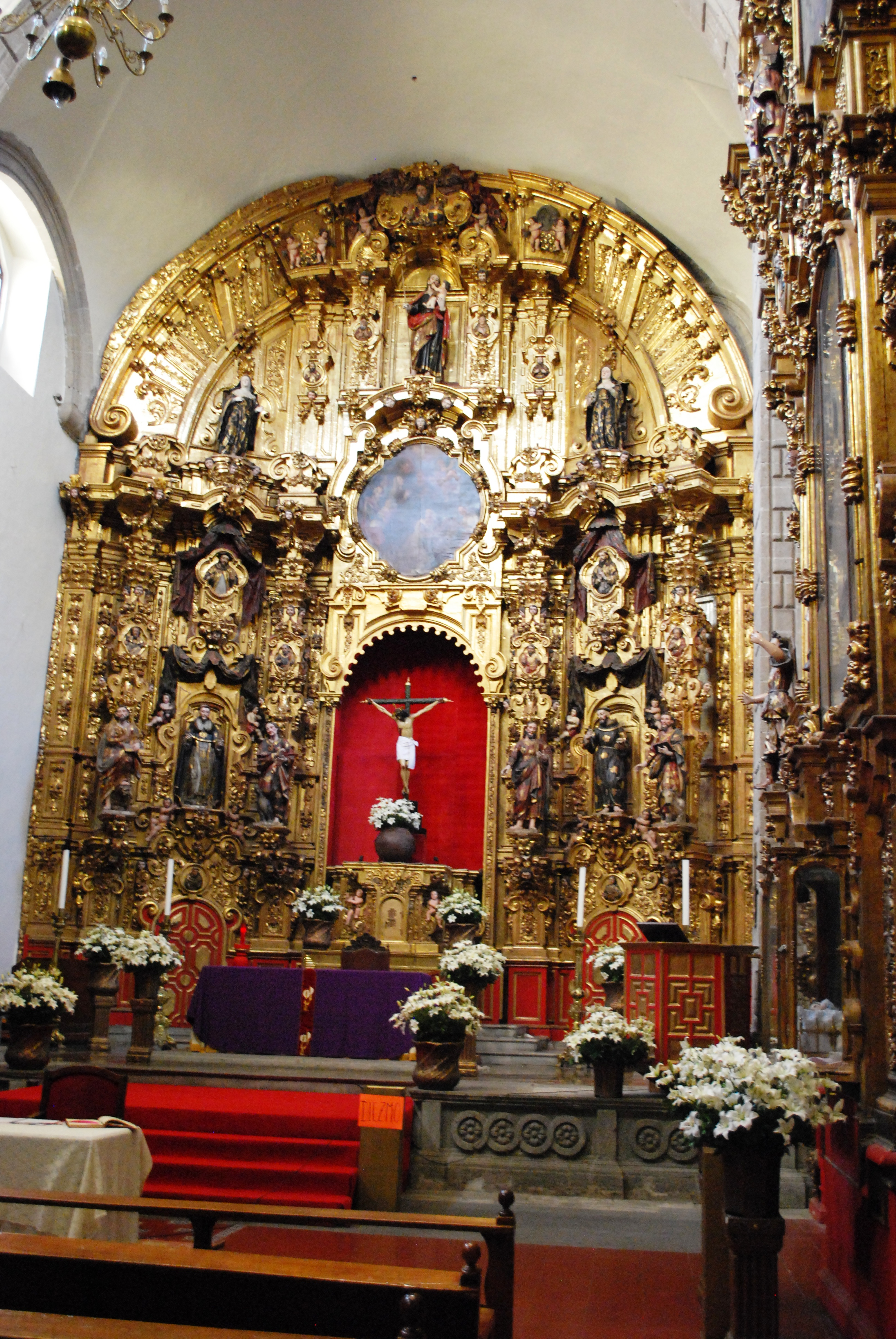 Main altar of the Regina Coeli Church in Mexico City